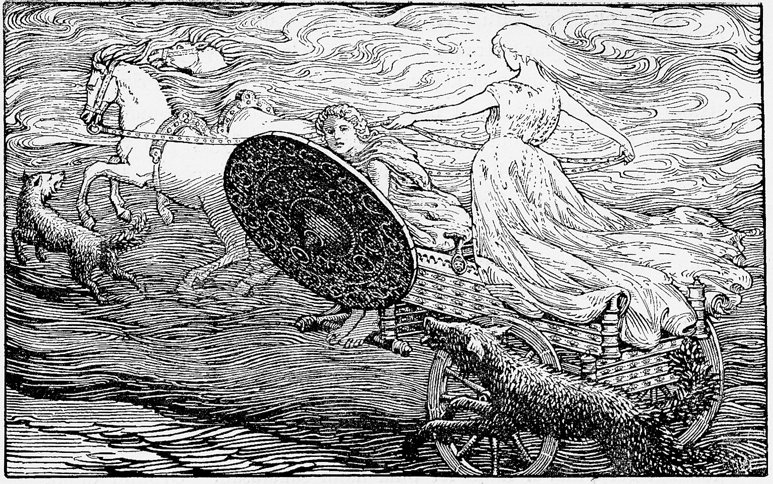 The chariot of the sun being pursued by wolves. The list of illustrations in the front matter of the book gives this one the title The Chariot of the Sun.